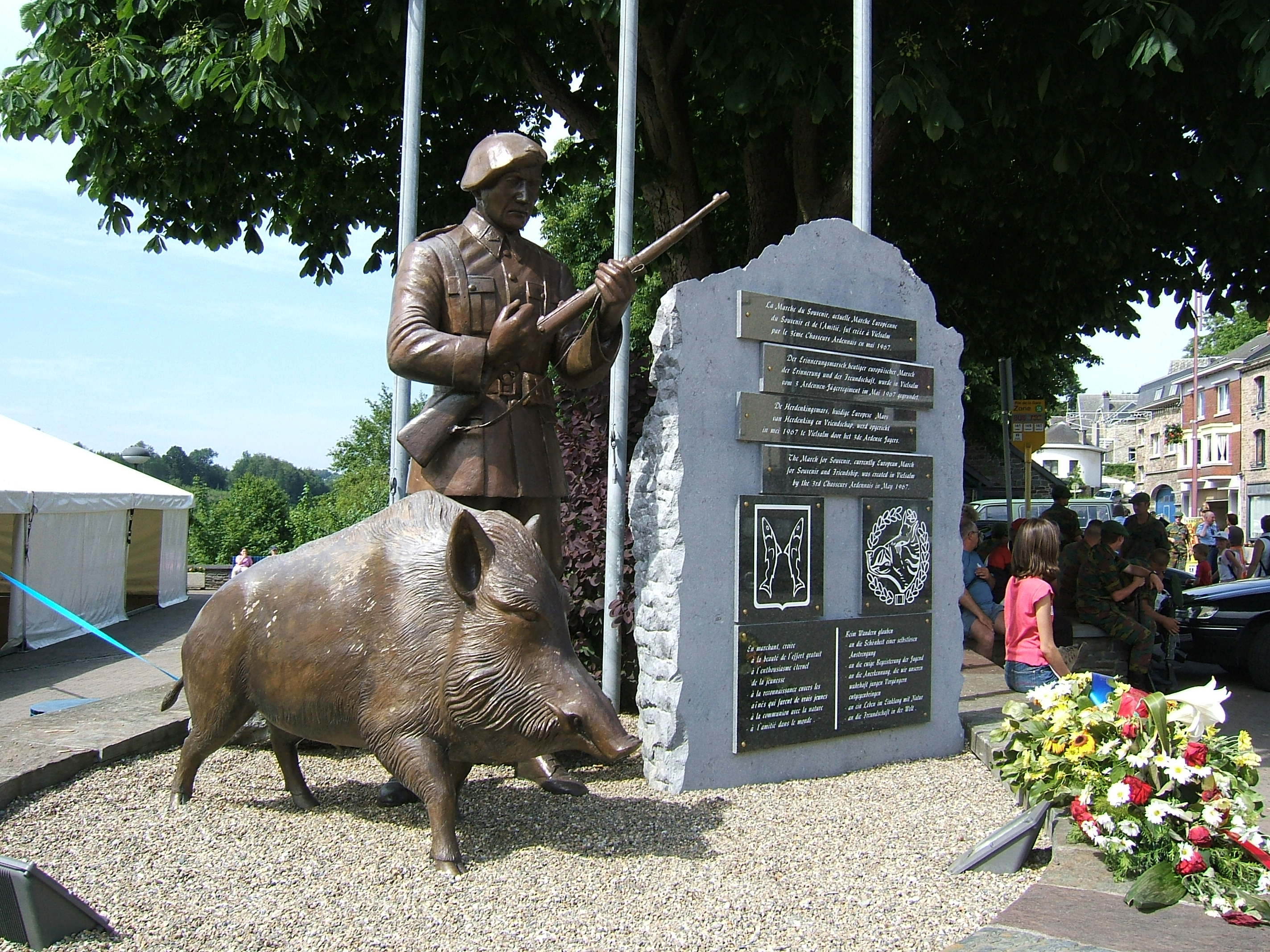 The monument to the Chasseurs Ardennais regiment in Vielsalm, Belgium, with the boar mascotte